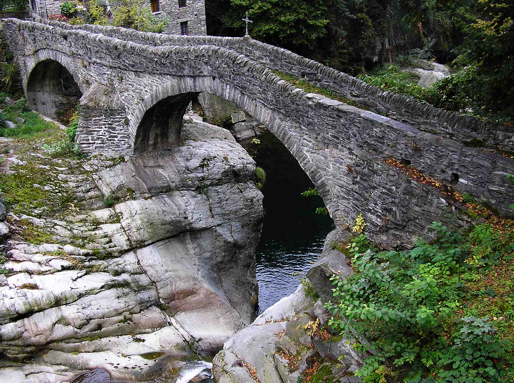 Pontboset (AO, Italy): ancient bridge on Ayasse creek